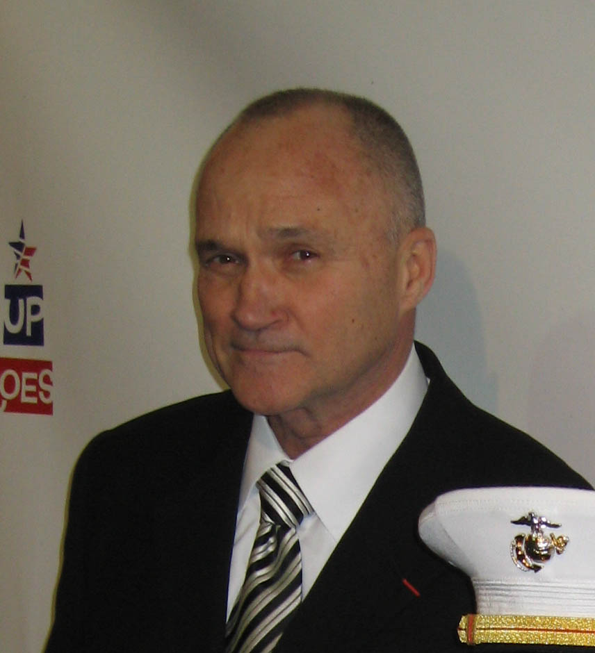 Commissioner of the New York City Police Department Raymond W. Kelly at "Stand Up for Heroes," a comedy and music benefit organized by the Bob Woodruff Family Fund to raise money for injured U.S. servicemen.